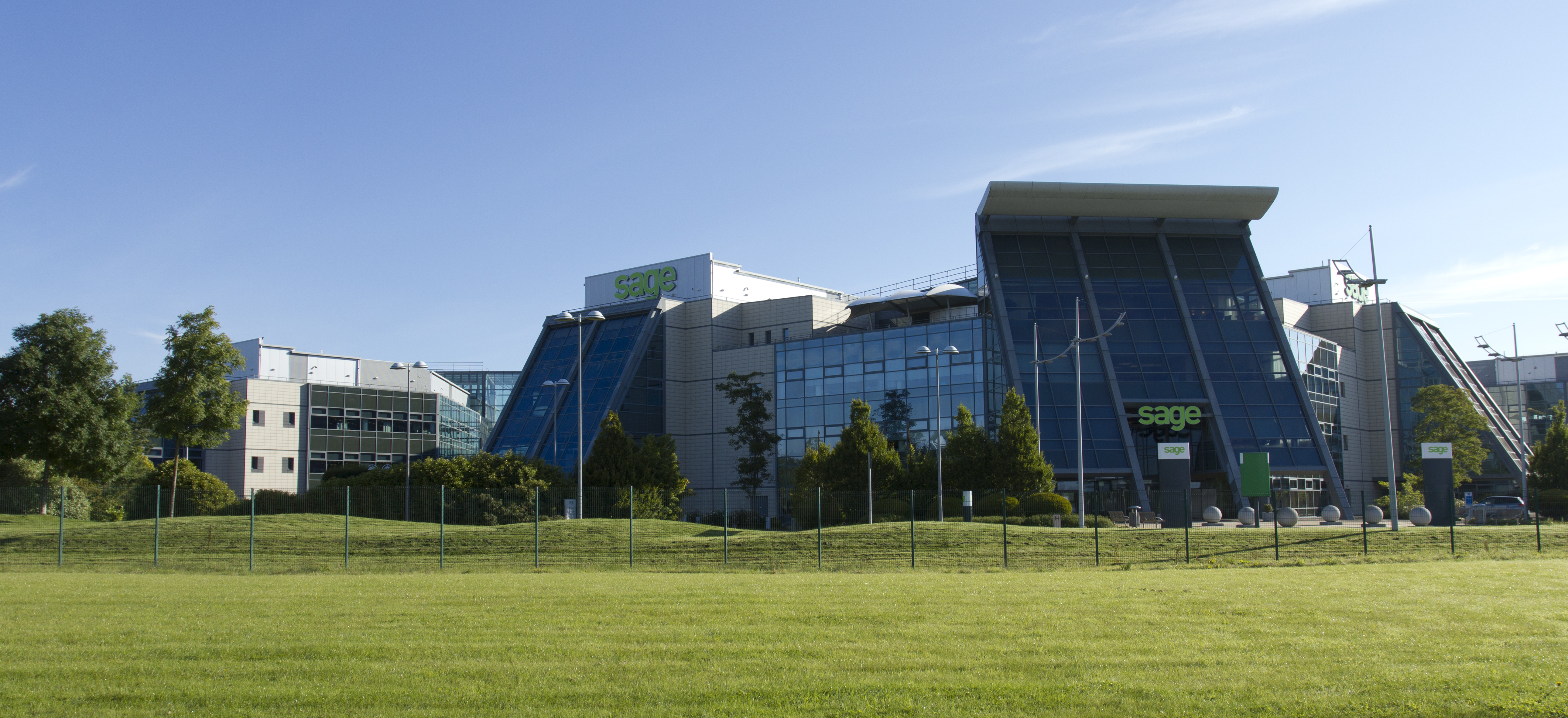 The front of the headquarters of Sage Group plc, North Park, Great Park, Newcastle upon Tyne, England, NE139AA, United Kingdom